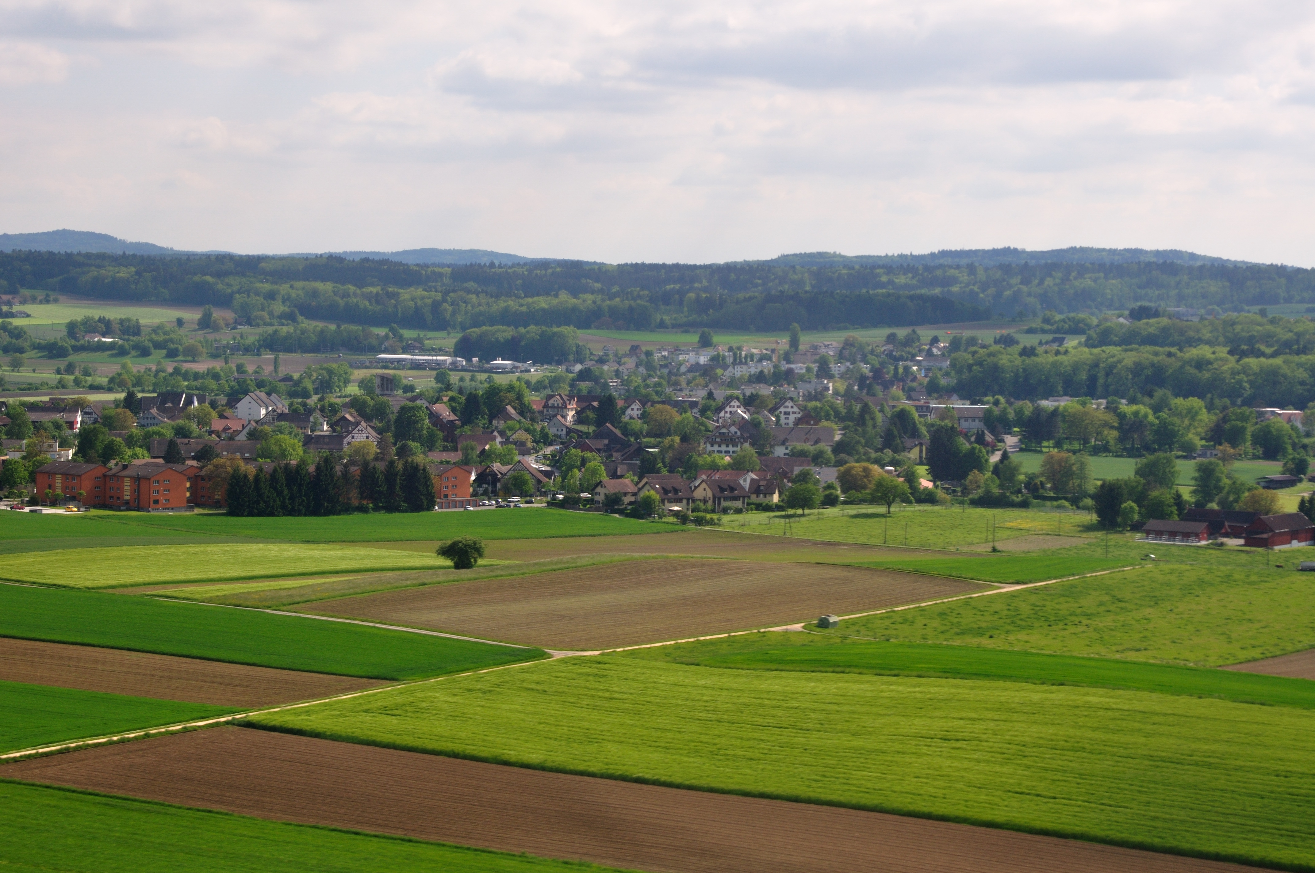 Switzerland, Canton of Zürich, aerial view of Oberglatt approaching runway 14 of Zurich International Airport